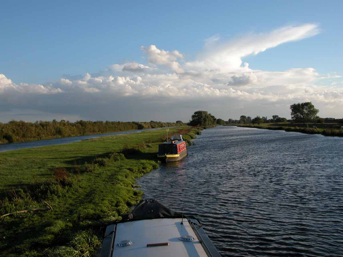 Image of the River Great Ouse taken at 6pm on 19th August 2004 by User:William M. Connolley looking upstream at the GOBA moorings just past the Brownshill Staunch a little upstream from Over. The river was moderateley high and the area to the L flooded.